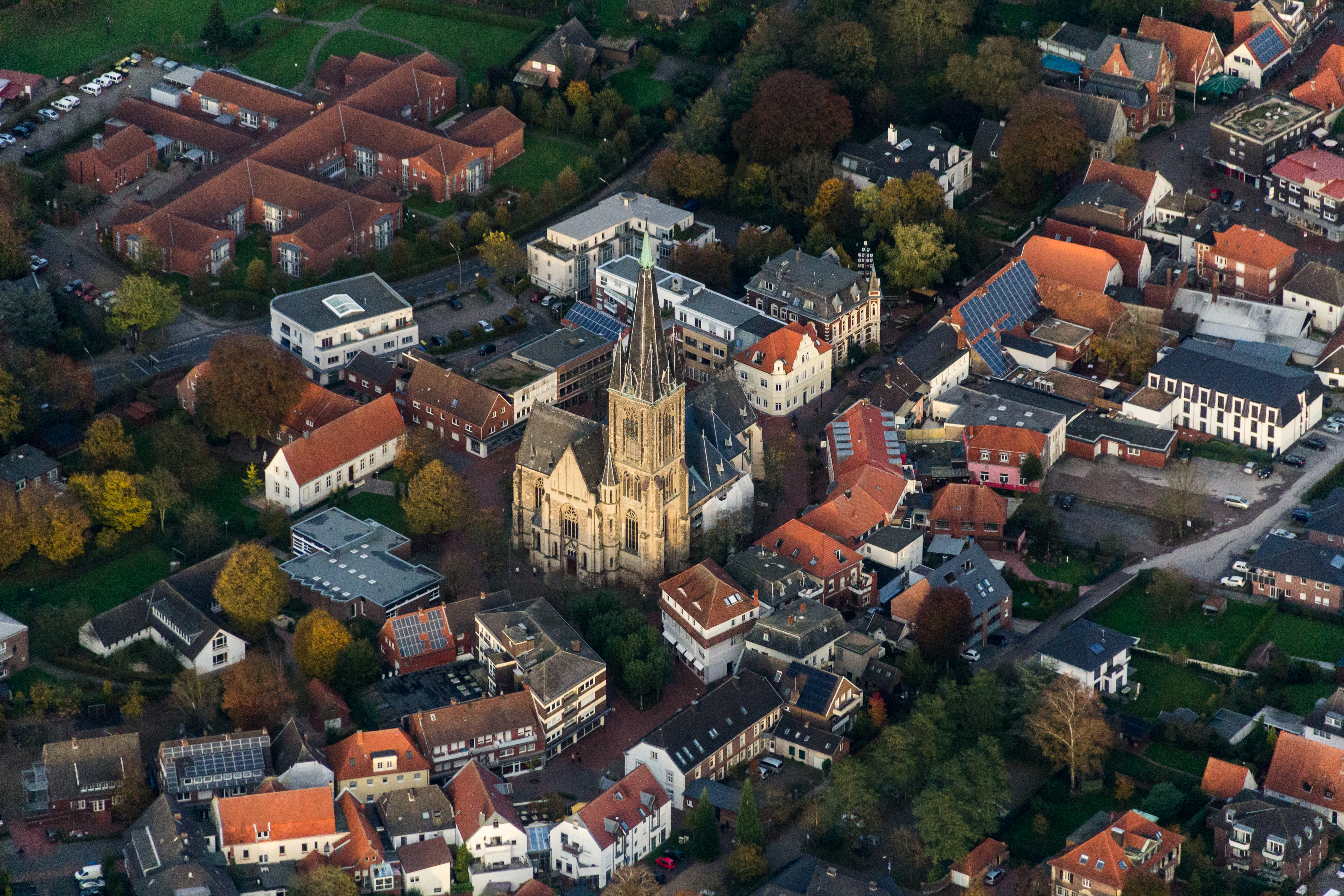 St. Pancras Church, Gescher, North Rhine-Westphalia, Germany